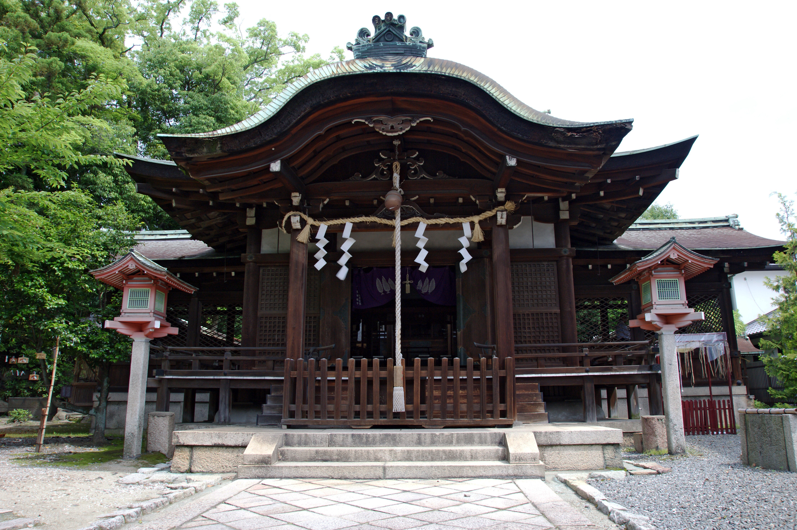 Rikyu-hachimangu in Oyamazaki-cho, Otokuni-gun, Kyoto prefecture, Japan